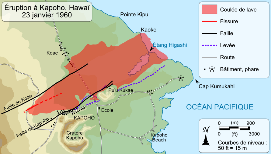 Map of the lava flow the january 23, 1960 during the 1960 Kilauea eruption, Hawaii, United States